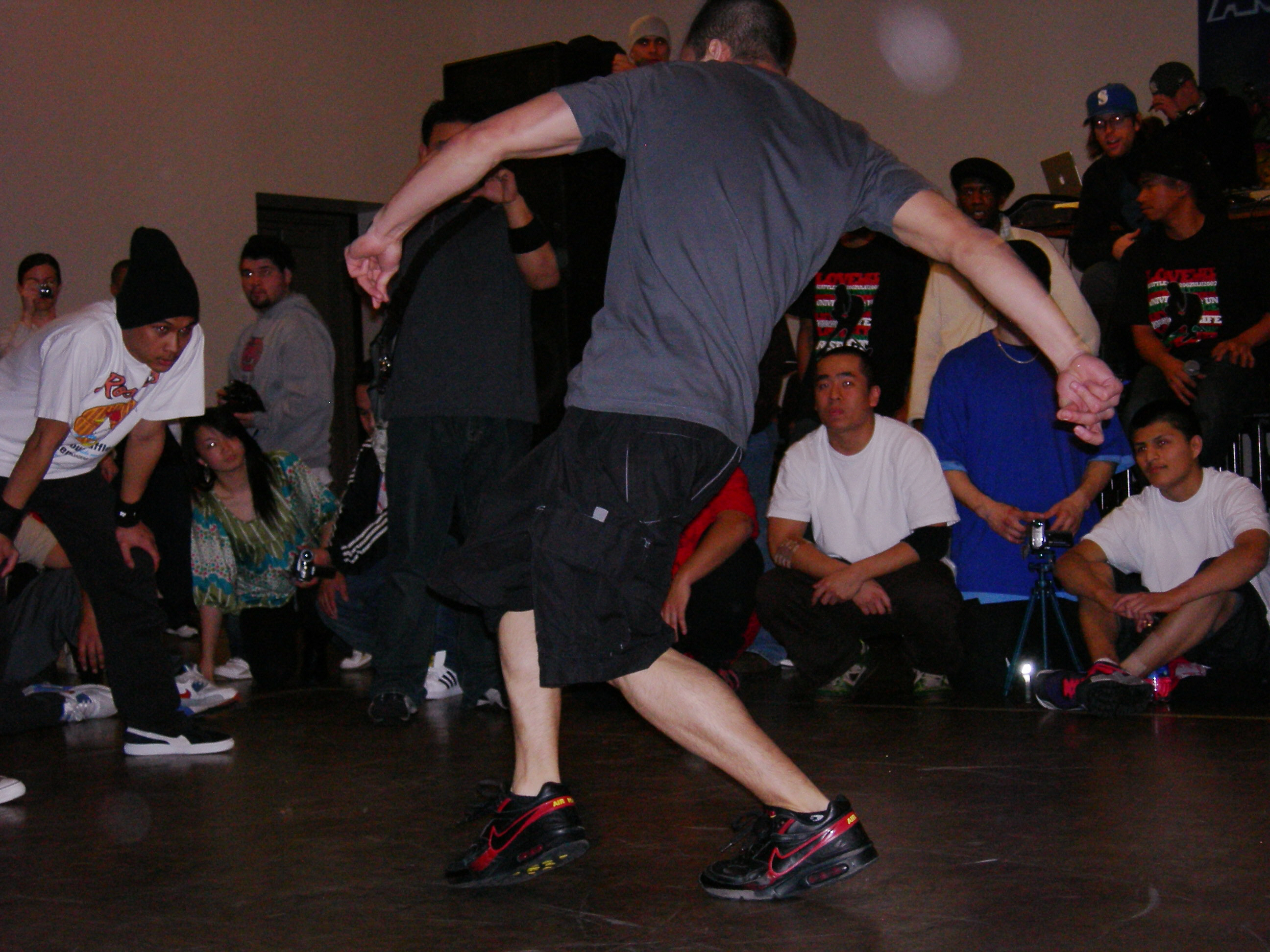 Dance competition. Third Anniversary of Zulu Nation Seattle Celebration of Hip Hop Culture, part of Festival Sundiata, a Festál event at Seattle Center, Seattle, Washington.